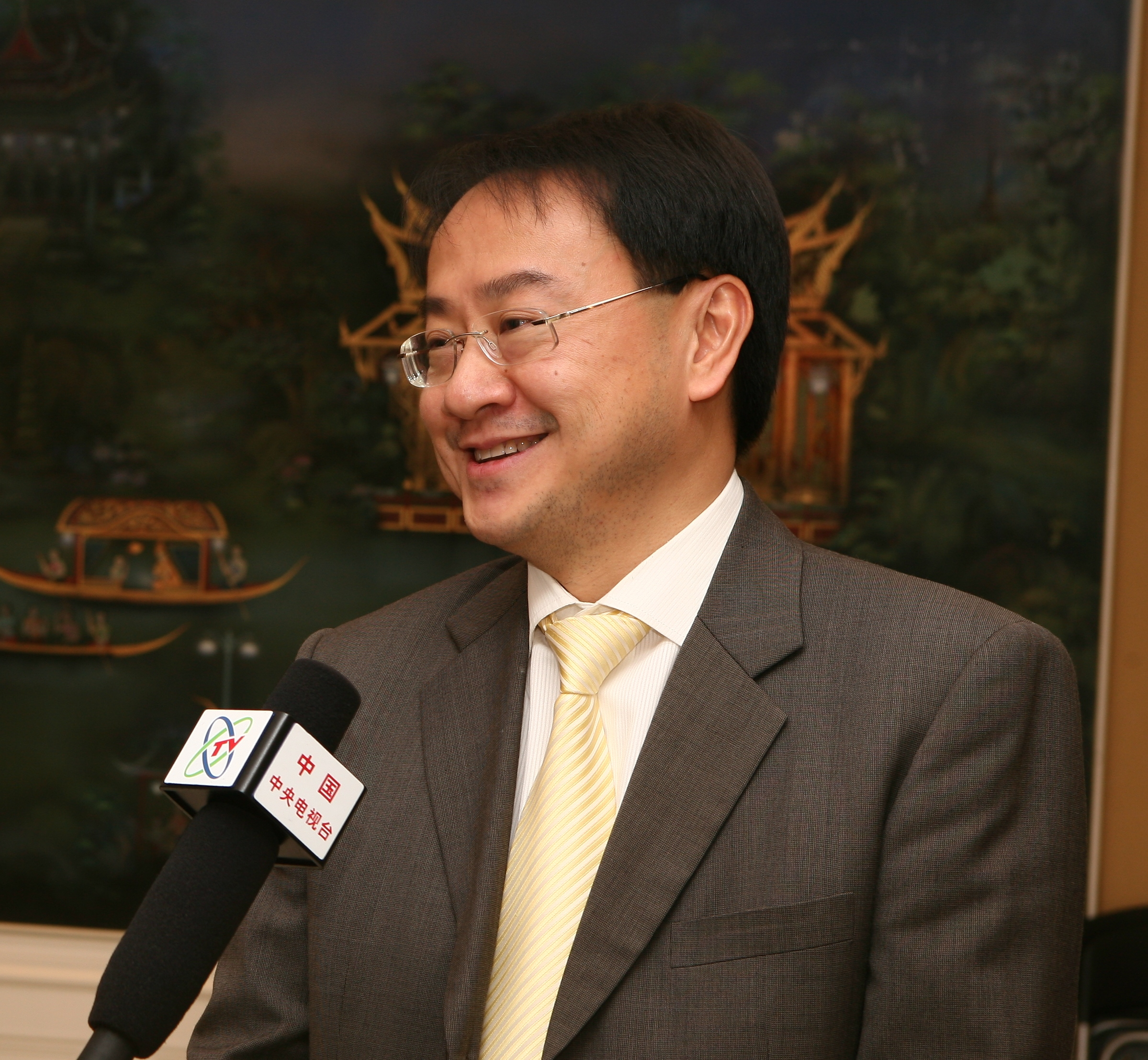 Minister to the Prime Minister’s Office, Thailand